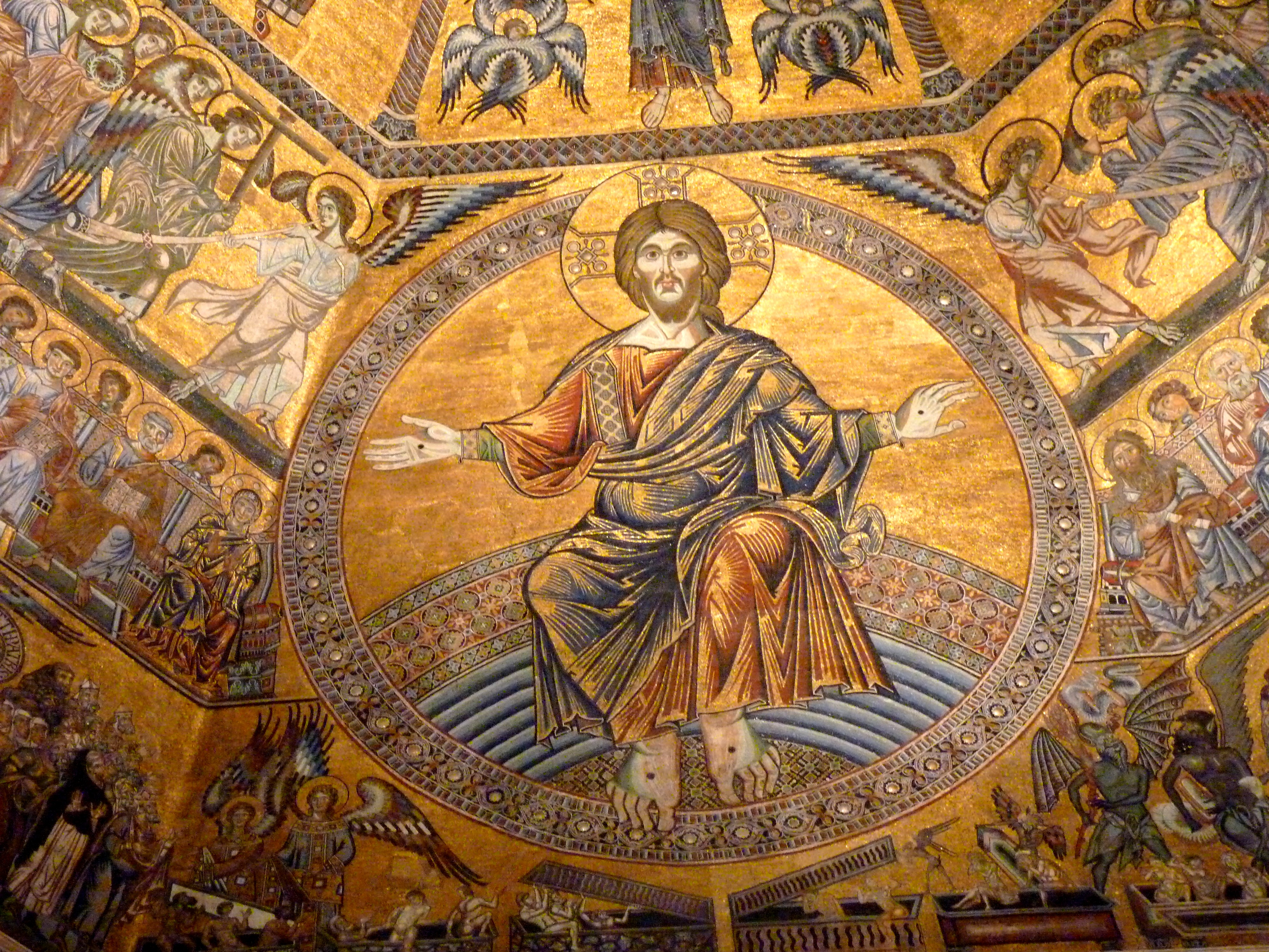 The mosaic ceiling of the Baptistery of Florence.